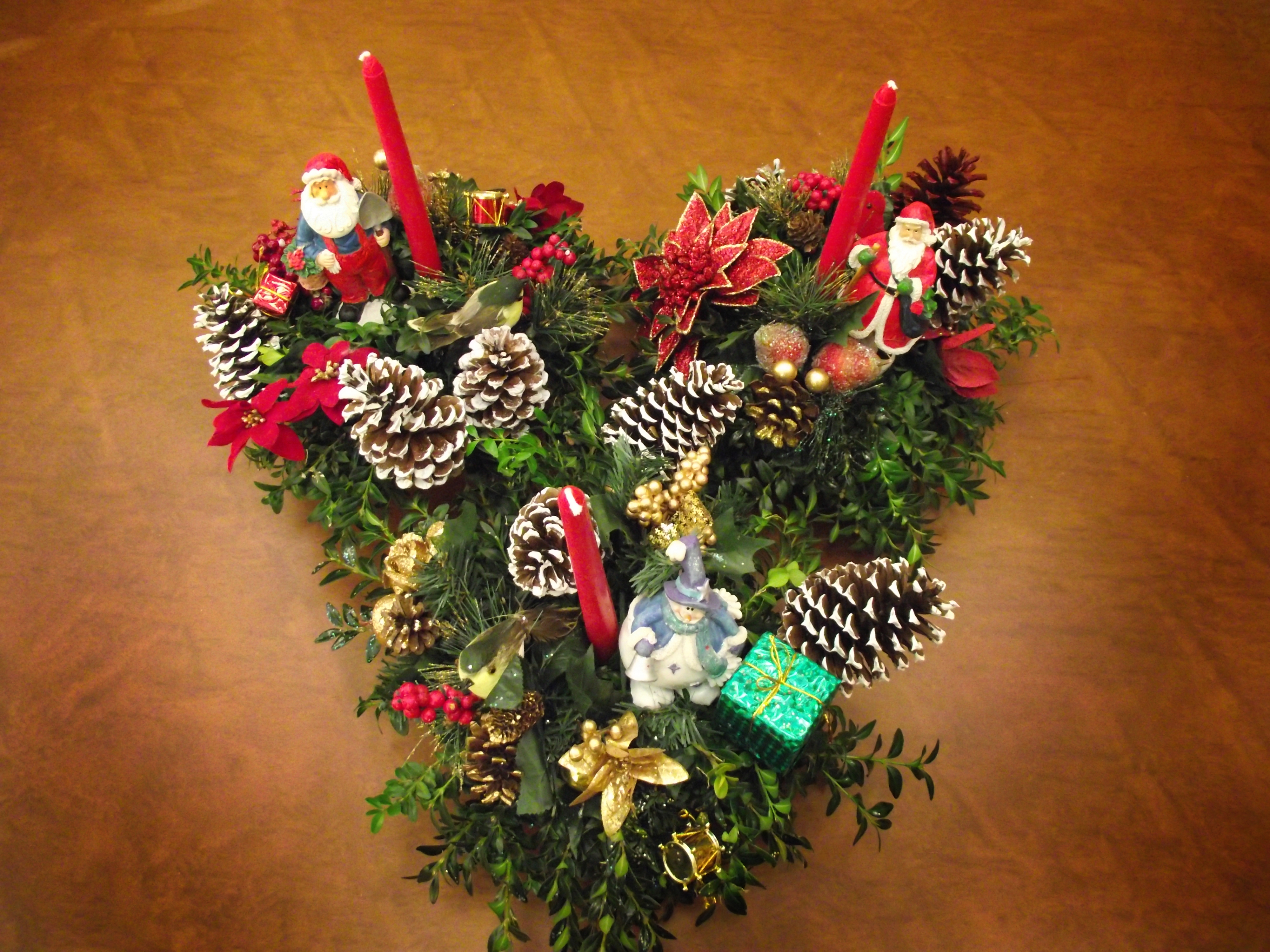 Chief Ranger Mike Lambert puts the finishing touches on Christmas centerpieces he will exhibit during the park's centerpiece workshop. Used in Blog - MB